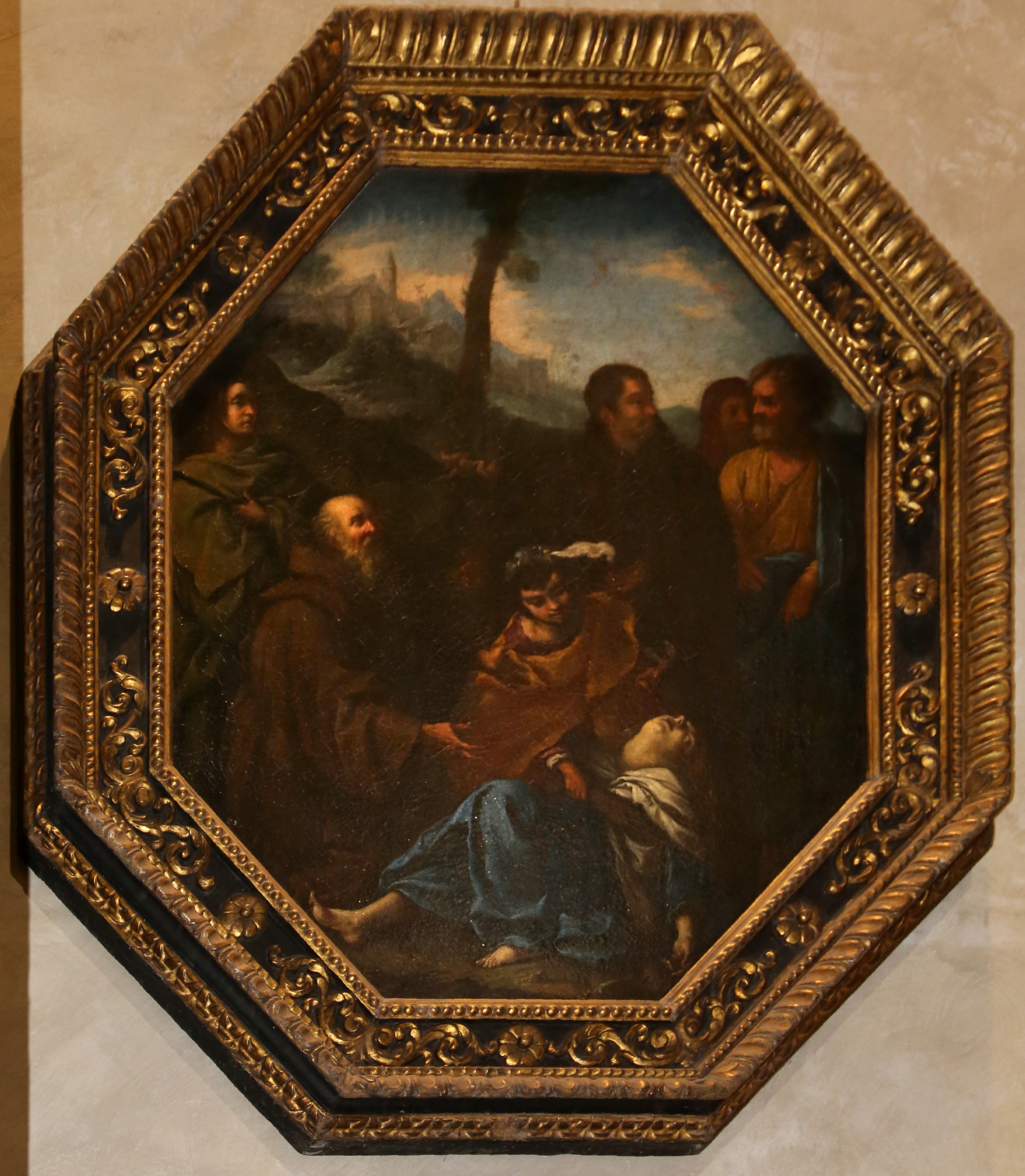 San Giuseppe (Florence) - Interior